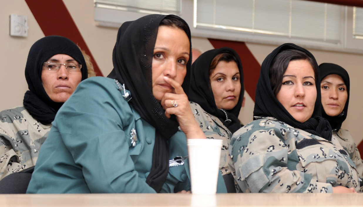 Female members of the Afghan Uniformed Police and Afghan Border Patrol attend a female shura on Camp Marmal, July 11. The official assembly gave women in uniform and female provincial leaders a forum to discuss recruitment and retention of women into the Afghan National Security Forces. (Photo ID: 625443)